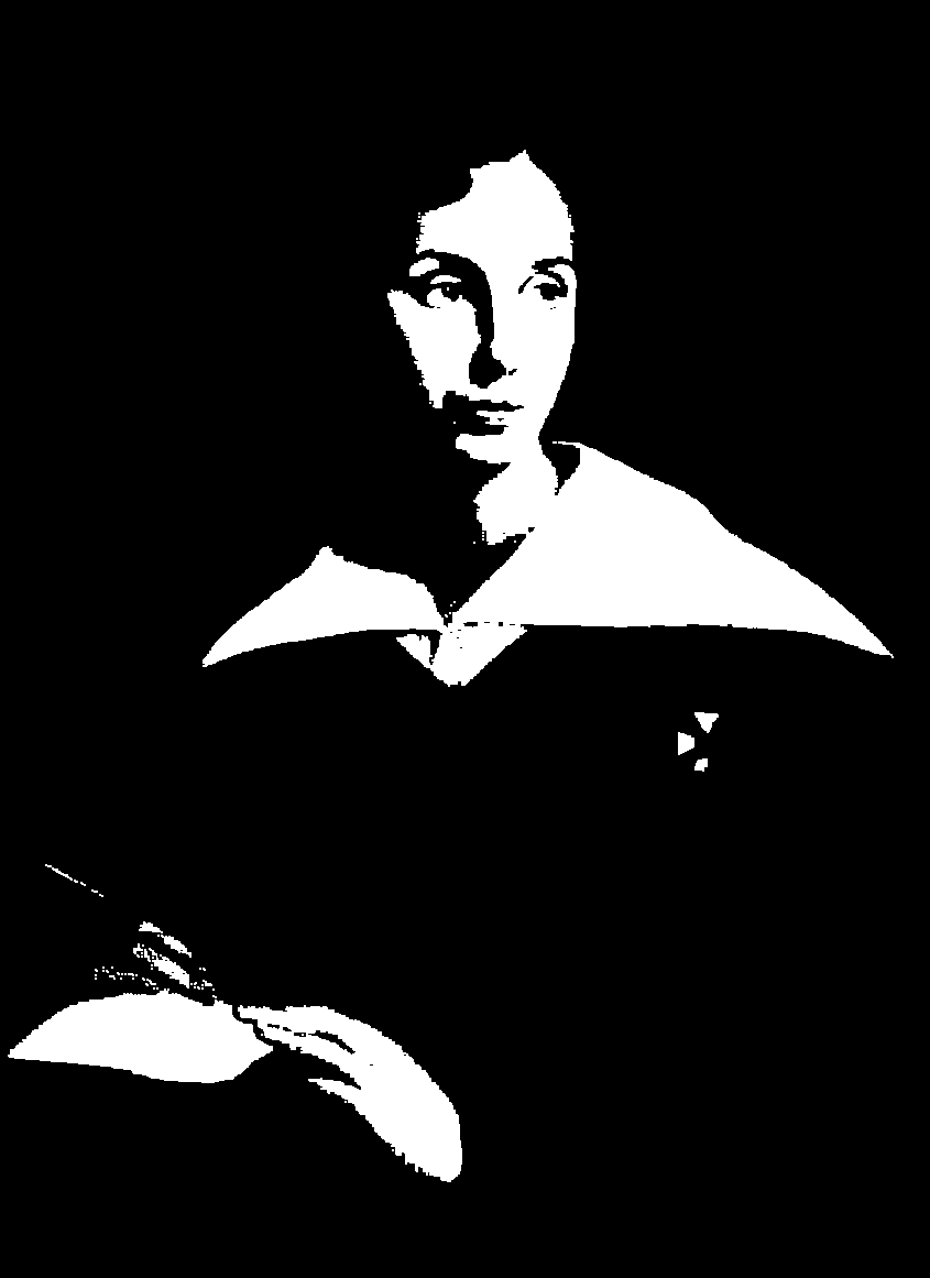 French poetess and historian Félicie d'Ayzac (1801-1881)